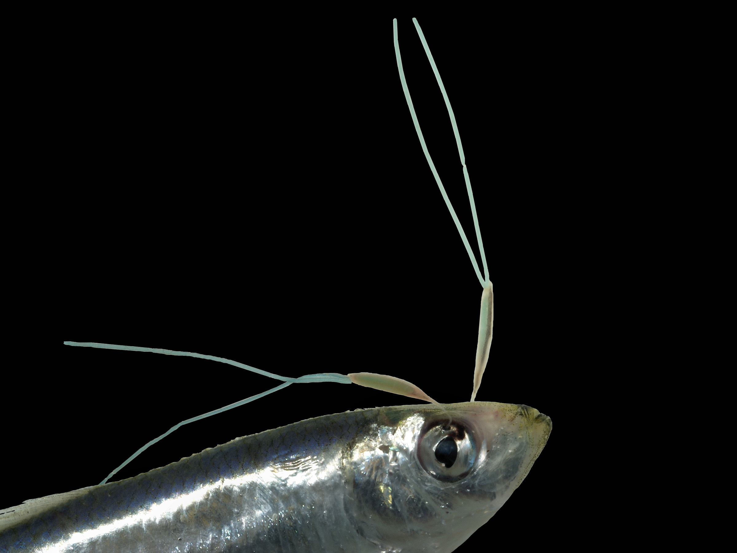 The eye maggot of sprat, a parasitic copepod on its host sprat (Sprattus sprattus) from the Nieuwpoort dredge disposal site on the Belgian continental shelf (Southern North Sea).The teal paired threadlike appendages on each of the two parasites are the eggsacks. The copepod is attached to the eye of the sprat.